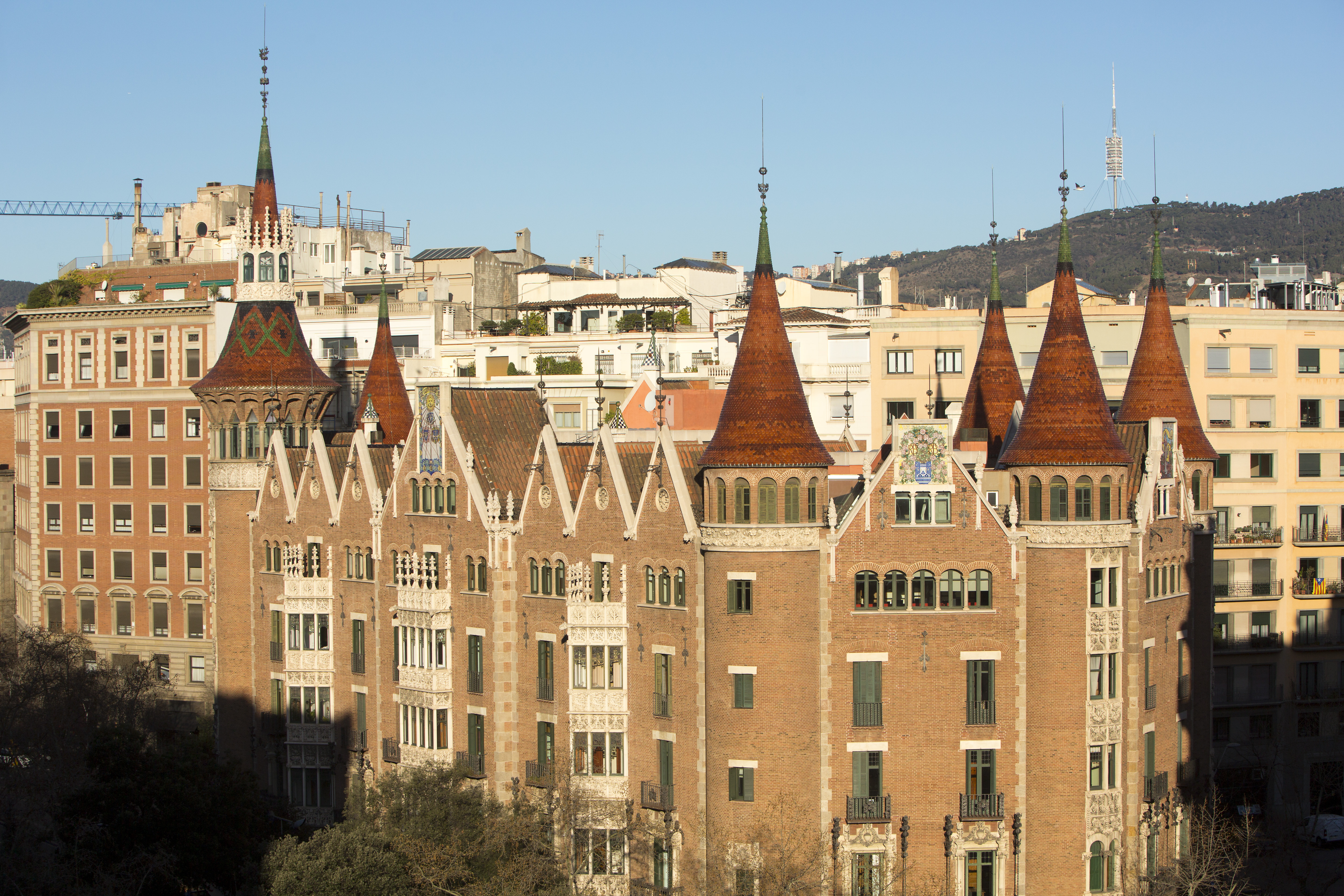 Casa de les Punxes, Barcelona, Spain